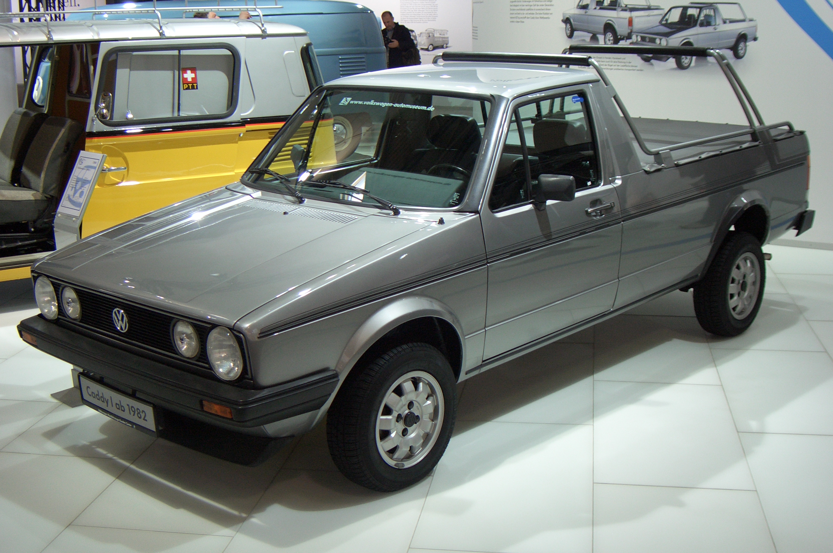 VW Caddy I (14D),1979-1992, seen at TECHNO CLASSICE 2012 in Essen, Germany